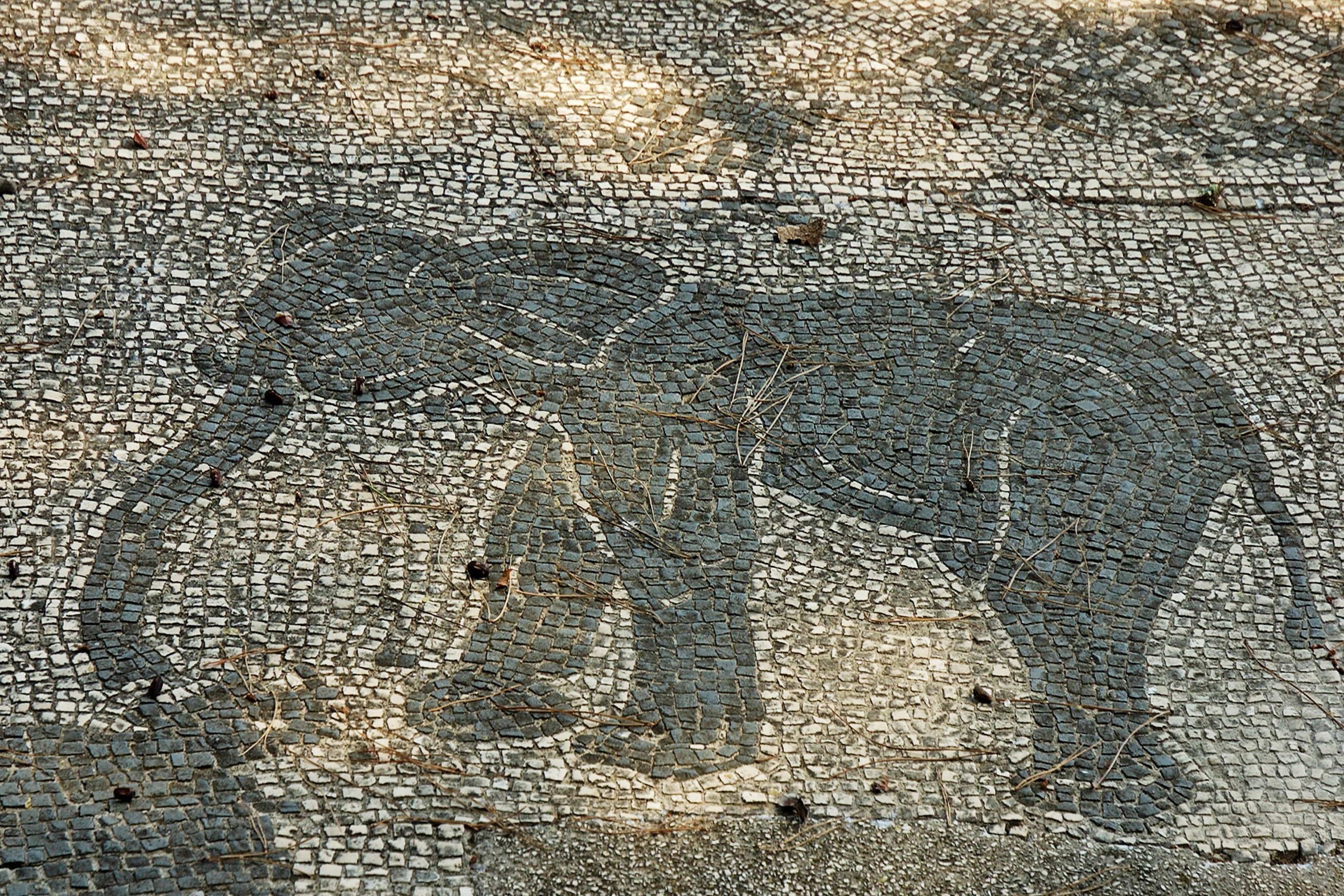 Mosaic with an elephant. Part of Statio 14 (for Sabratha office) of the Piazzale delle Corporazioni, Ostia Antica, Latium, Italy.